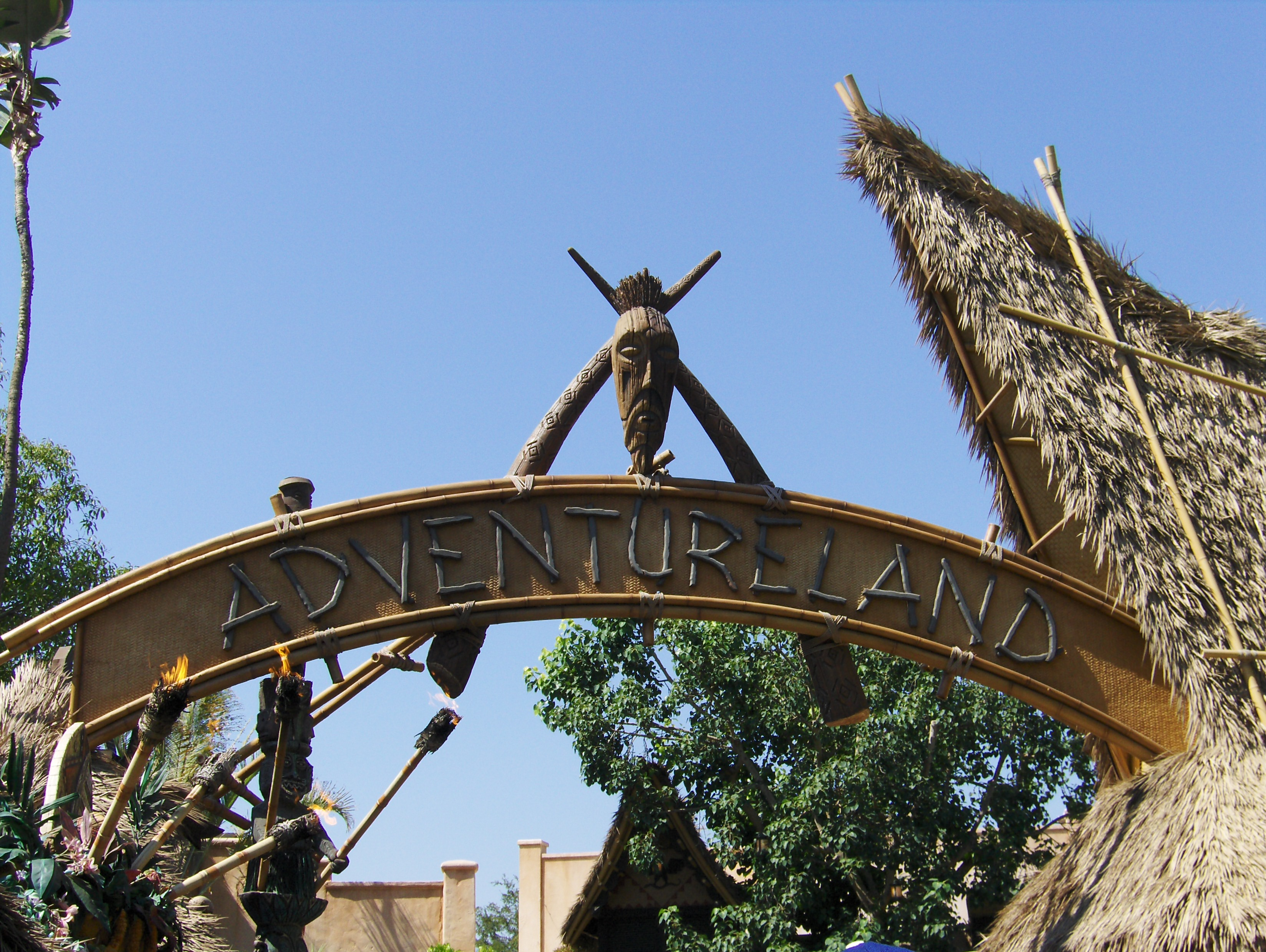 Disneyland Adventureland.